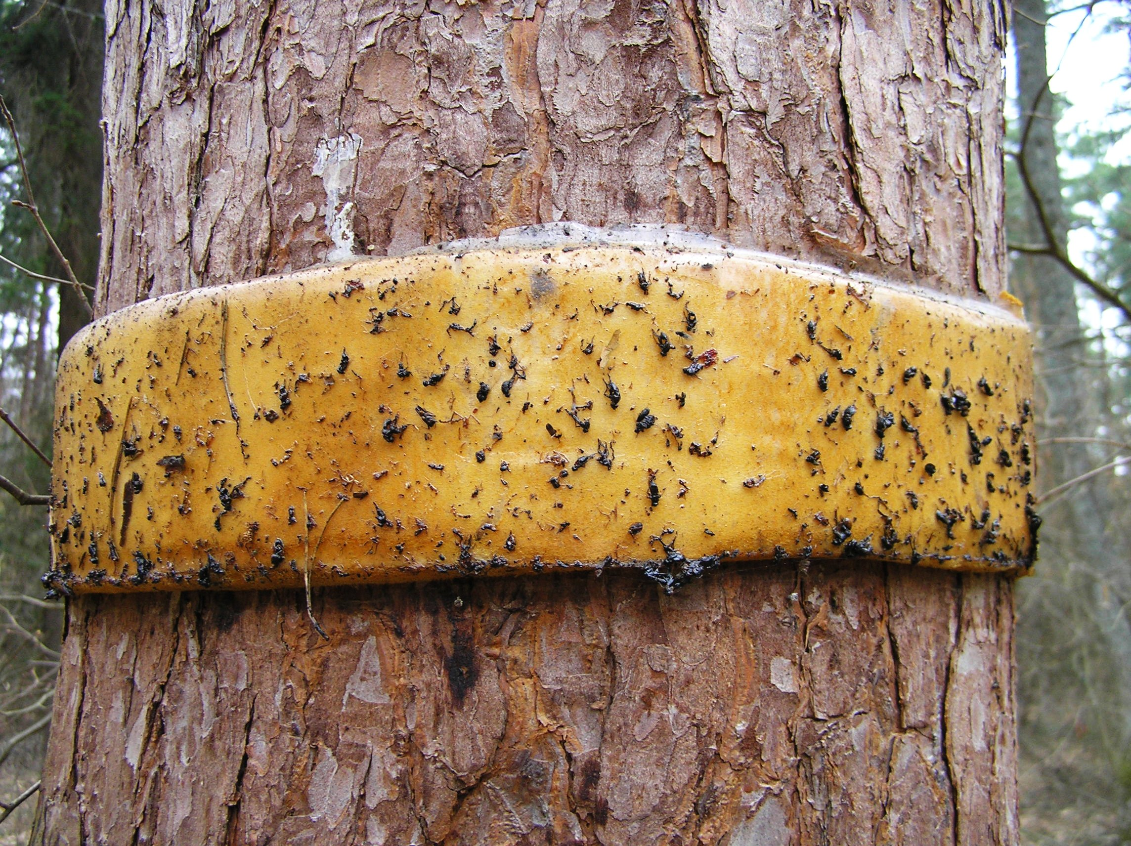 Caterpillar grease on Lymantria monacha, on Pinus sylvestris, Brok, Poland